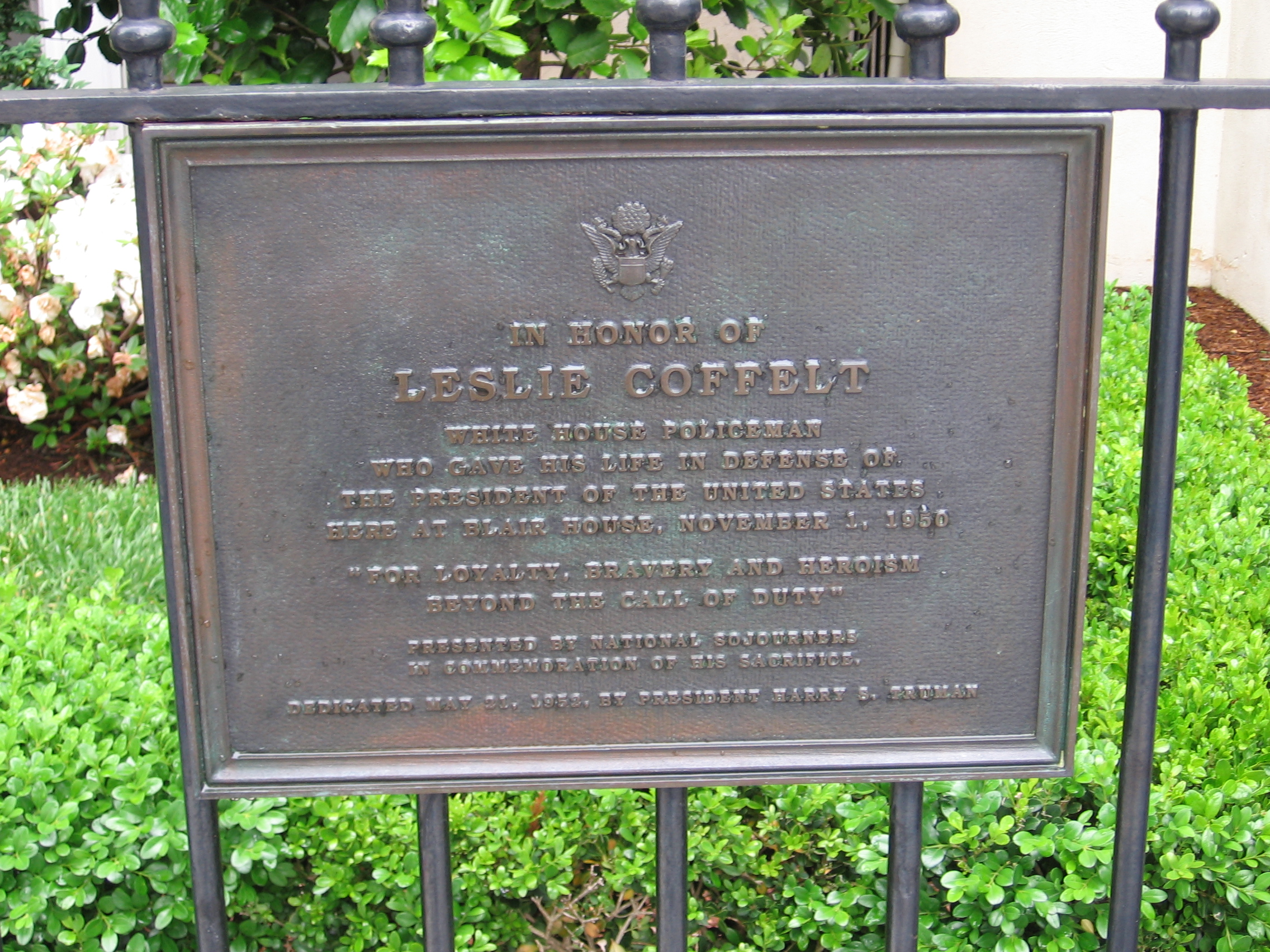 Plaque commemerating Leslie Coffelt killed at the Blair House in Washington, D.C..